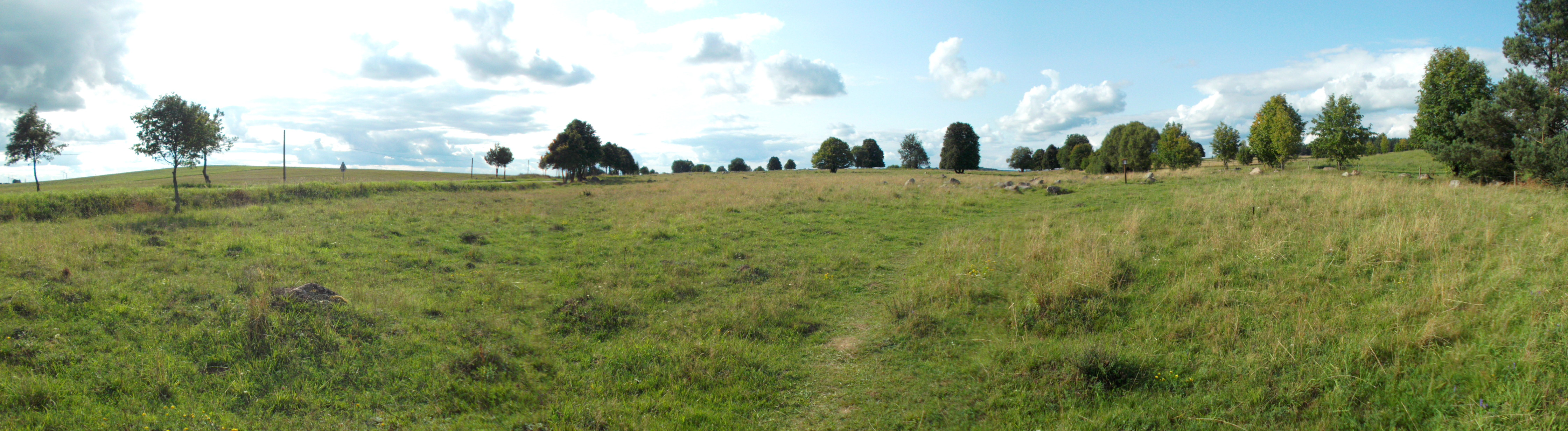 Nature reserve Rutka (Poland, Suwałki County).